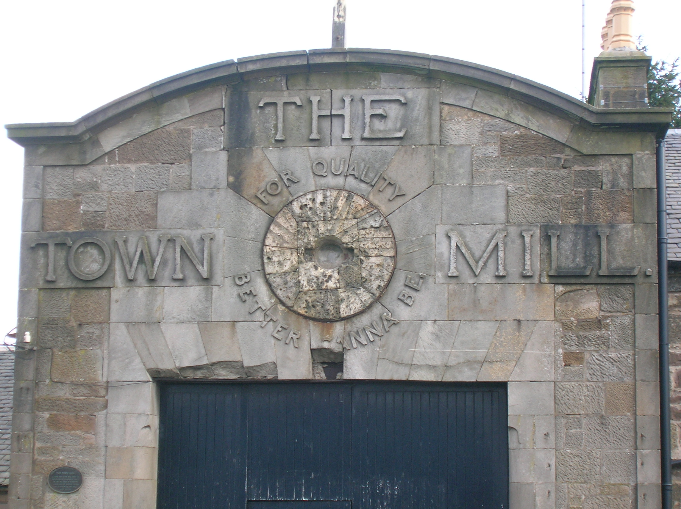 The old Town Mill, Strathaven, South Lanarkshire. Showing details of the stone carving advertisement and old grindstone.